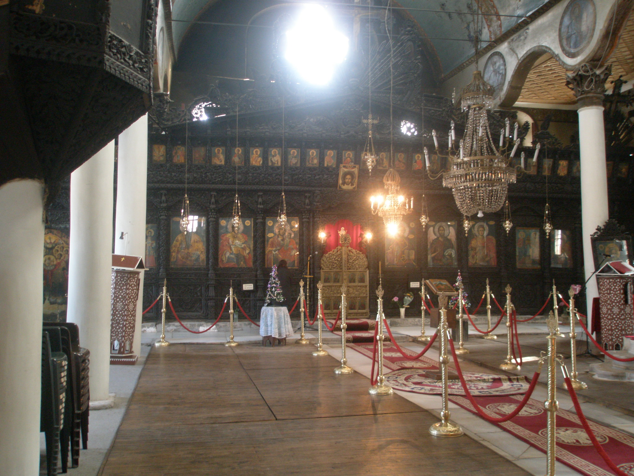 интериор